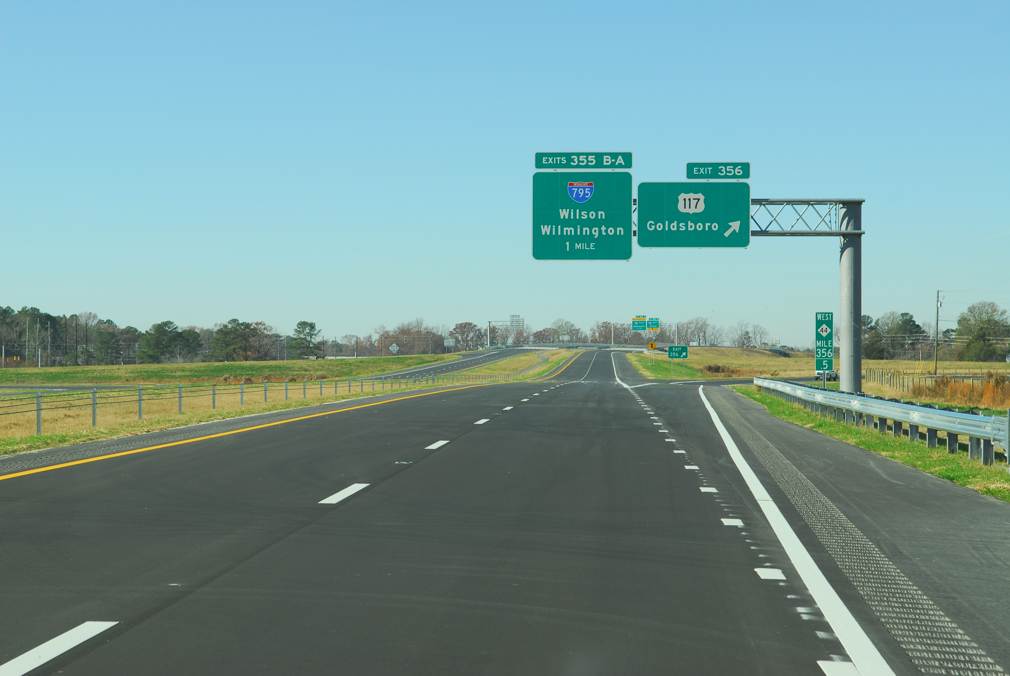 Westbound NC 44 (Future US 70) at US 117 interchange.